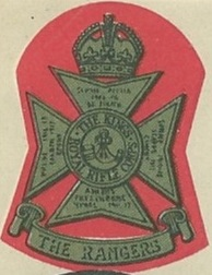 Cap badge of the 12th Battalion London Regiment (The Rangers) ca 1940